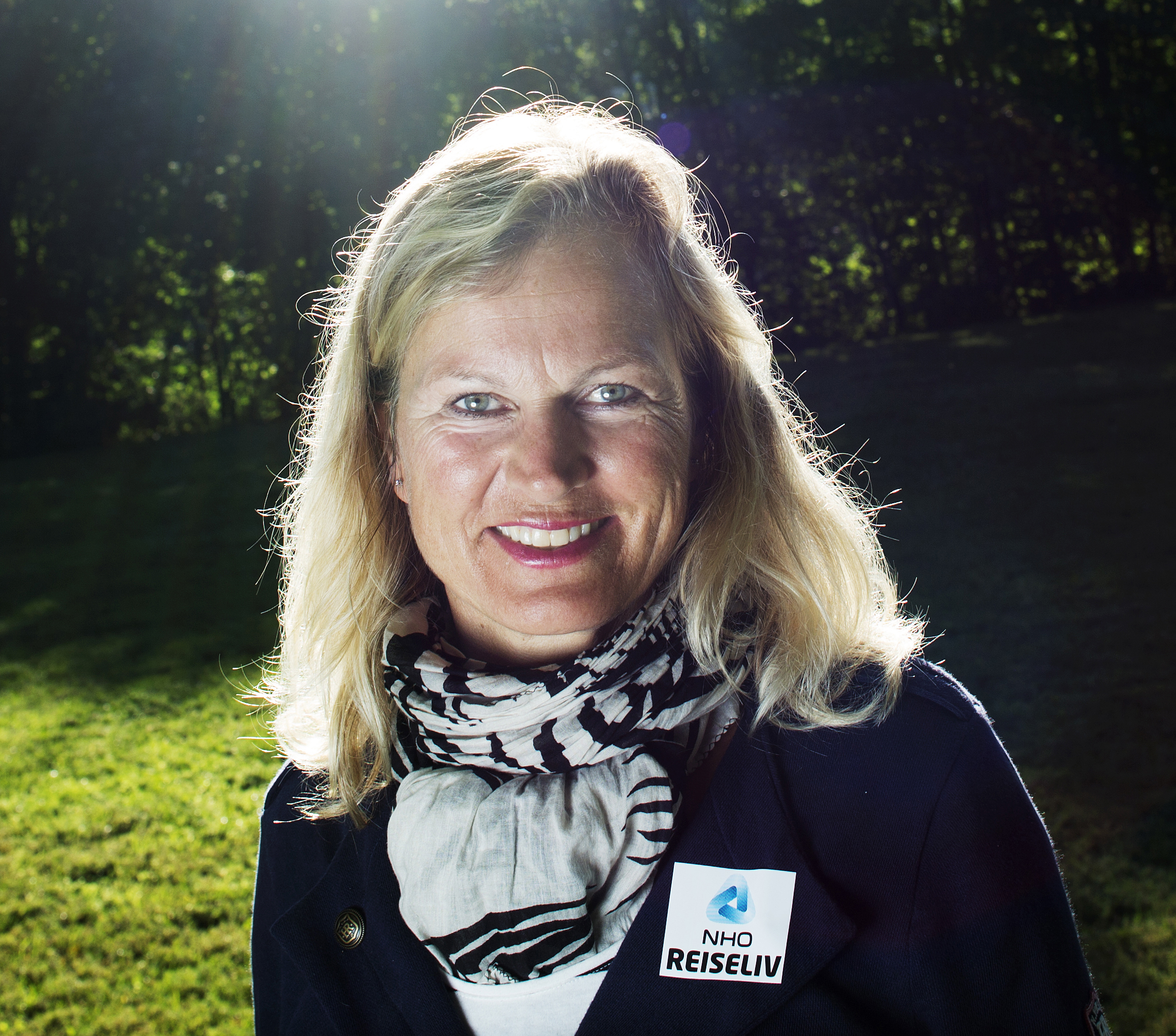 Kristin Krohn Devold, administrerende direktør NHO Reiseliv/CEO Norwegian Hospitality Association